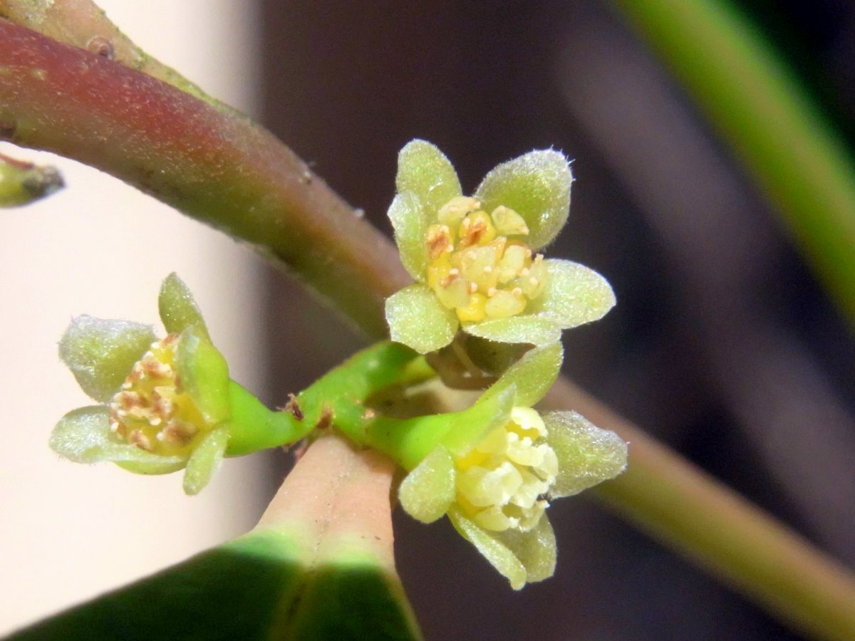 Cryptocarya meissneriana flowers